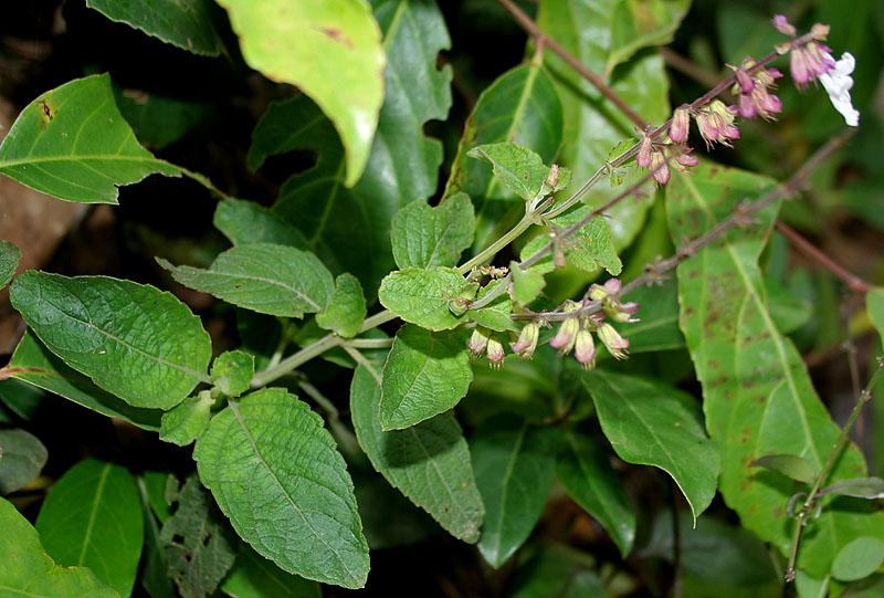 Description corrected as Orthosiphon thymiflorus (Roth) Sleesen (Synonyms: Orthosiphon roseus Briq.)- Cilannipattam (Mal & Tam); Pratanika (Sanskrit)- in Talakona forest, in Chittoor District of Andhra Pradesh, India.